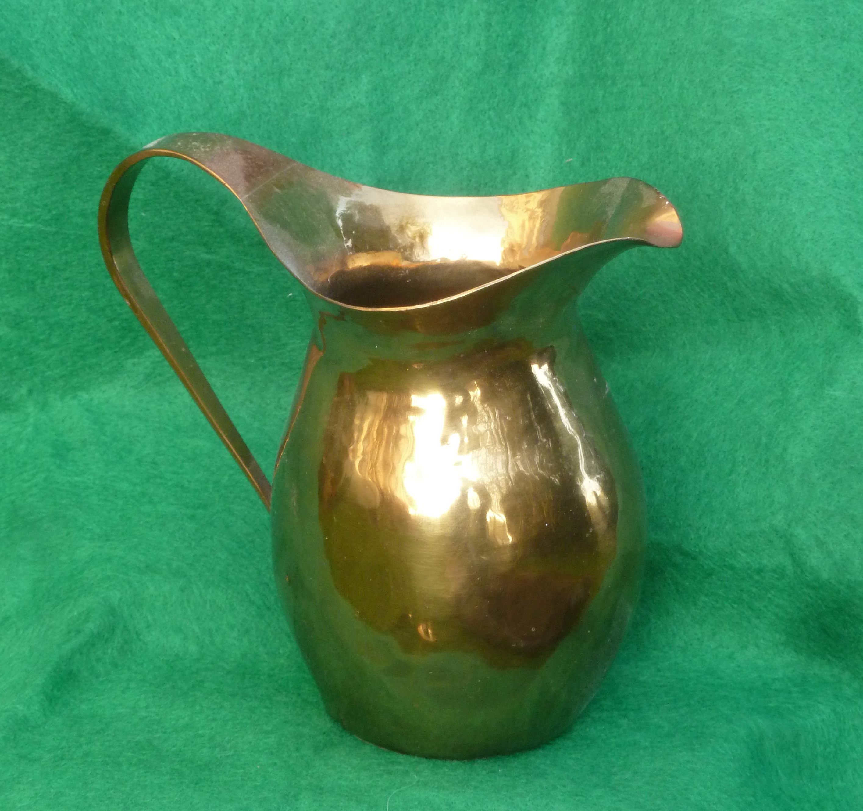 British school 1970s-1980s, gilding metal. I don't know much about these. They were in the collection of a friend's dad, a school metalwork teacher (If anyone remembers a Mr Haylor in Essex, please shout!). No idea who made them, but they're lovely work, particularly the jug. Very impressive for school work.